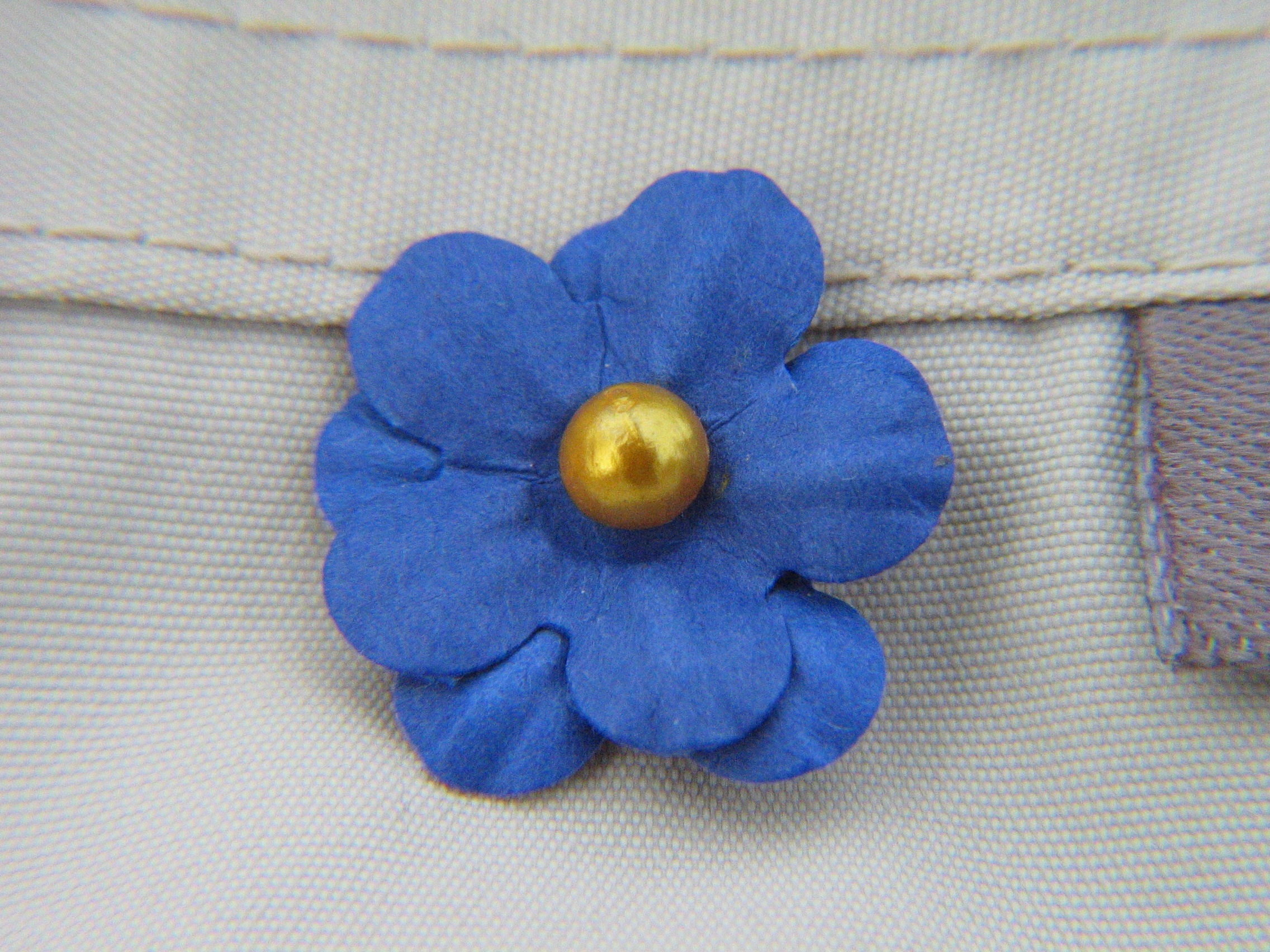 Swedish charity pin called majblomma, photo taken in Sweden